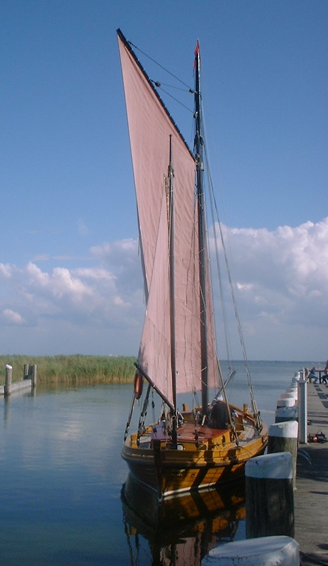 „Sannert“ in the harbour of Ahrenshoop-Althagen in Mecklenburg-Western Pomerania, Germany